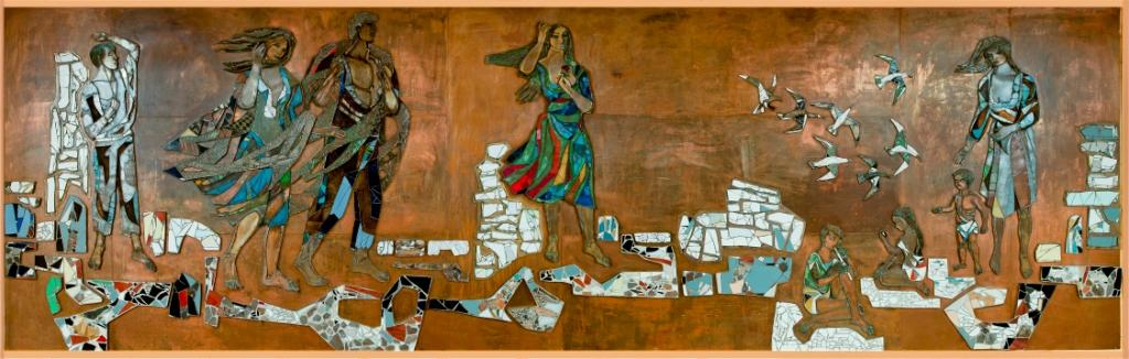 Work of art by sculptor Jørleif Uthaug (1911-90): Mennesker på en strand «Tromsøveggen» (People on the shore "The Tromsø wall") (1961)